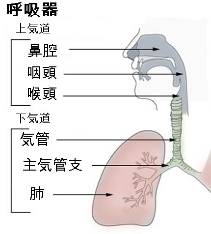 based on a public domain image of the 呼吸器, this is the Japanese version (日本語版) Doctor words are confusing, if you are a licensed doctor... let me know if something isn't correct.